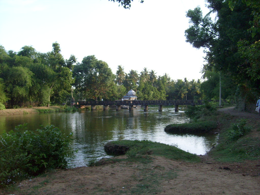 Bridge across the Kaveri River connecting Bhaskararajapuram and Thiruvalangadu